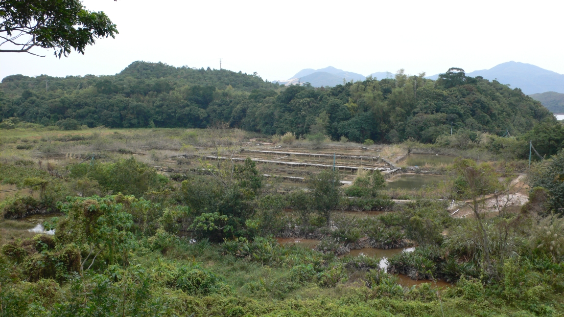 Abandoned Salt Farm in Yim Tin Tsai, an outlying island of Hong Kong